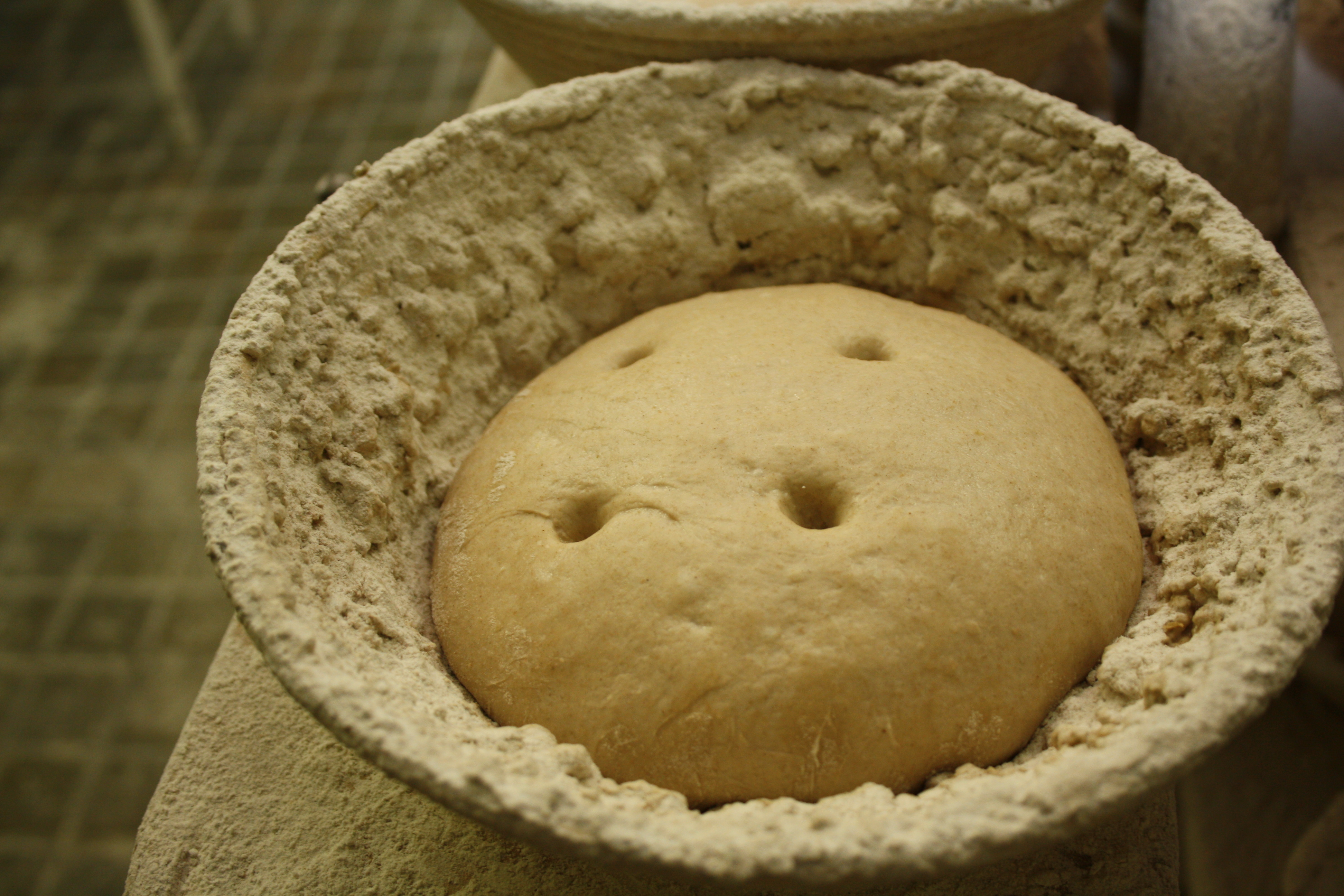 Production process of bread, Czech Republic This photograph was taken with a DSLR from WMCZ's Camera grant. This picture was taken and/or got within the scope of the 'Acquiring scientific and specialized pictures' grant.